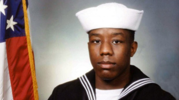 English